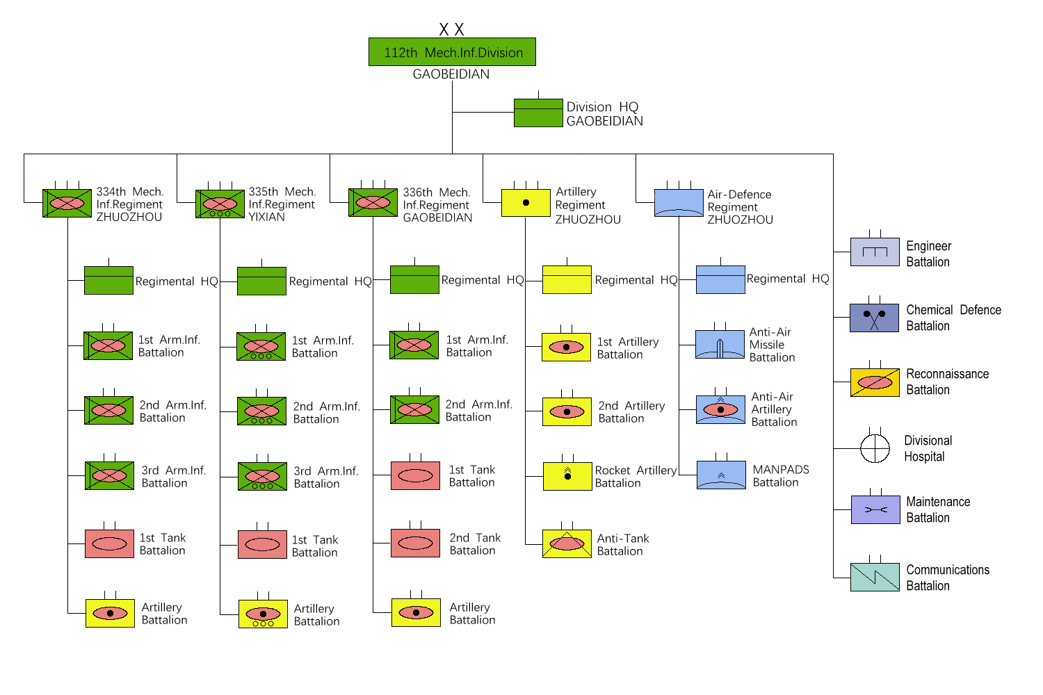 112th Mechanized Infantry Division (People's Republic of China)'s Order of Battle, from 2011